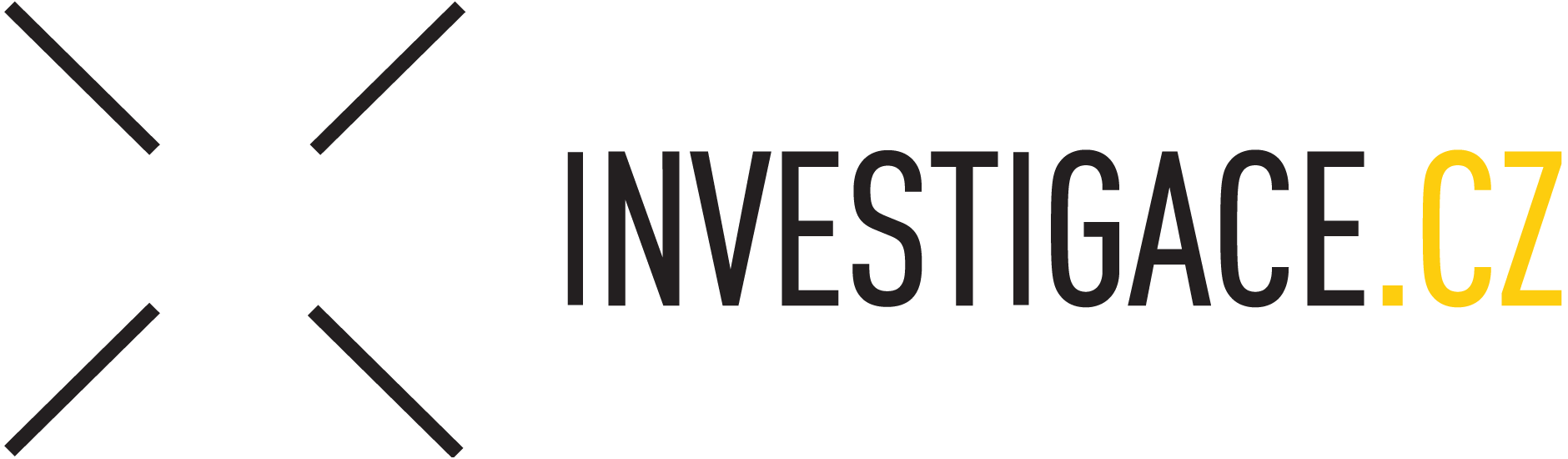 Logo of the Czech investigative journalistic organization Investigace.cz